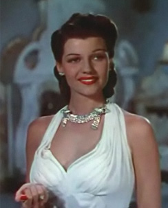 Cropped screenshot of Rita Hayworth from the trailer for the film Blood and Sand.